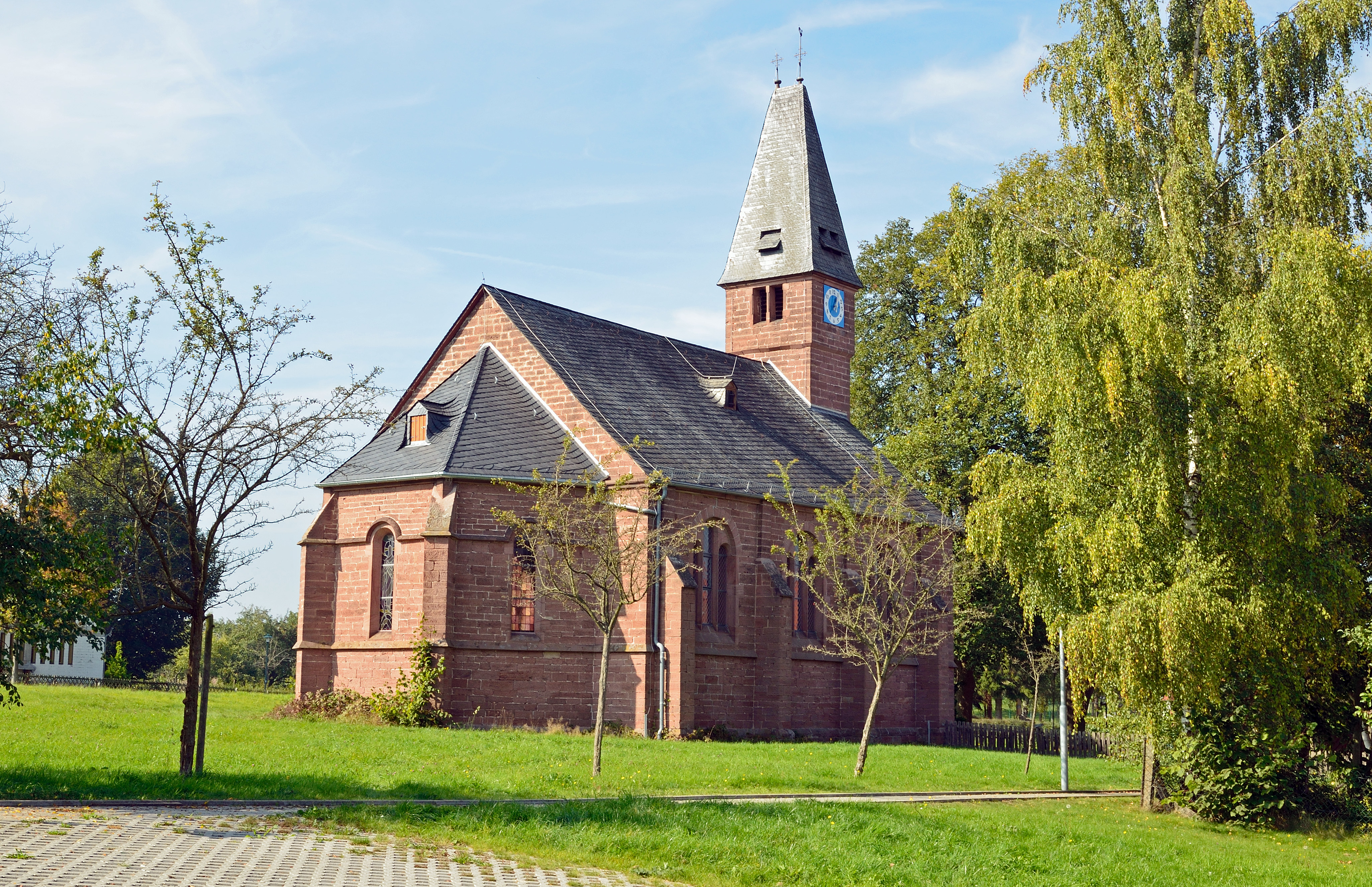 Church in Schwabendorf, Rauschenberg